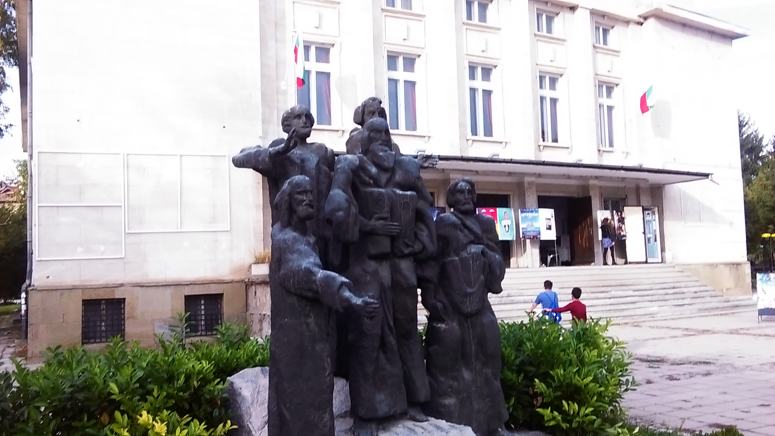 Кирило-Методиевите ученици, паметник на площад „Възраждане“ в Разград